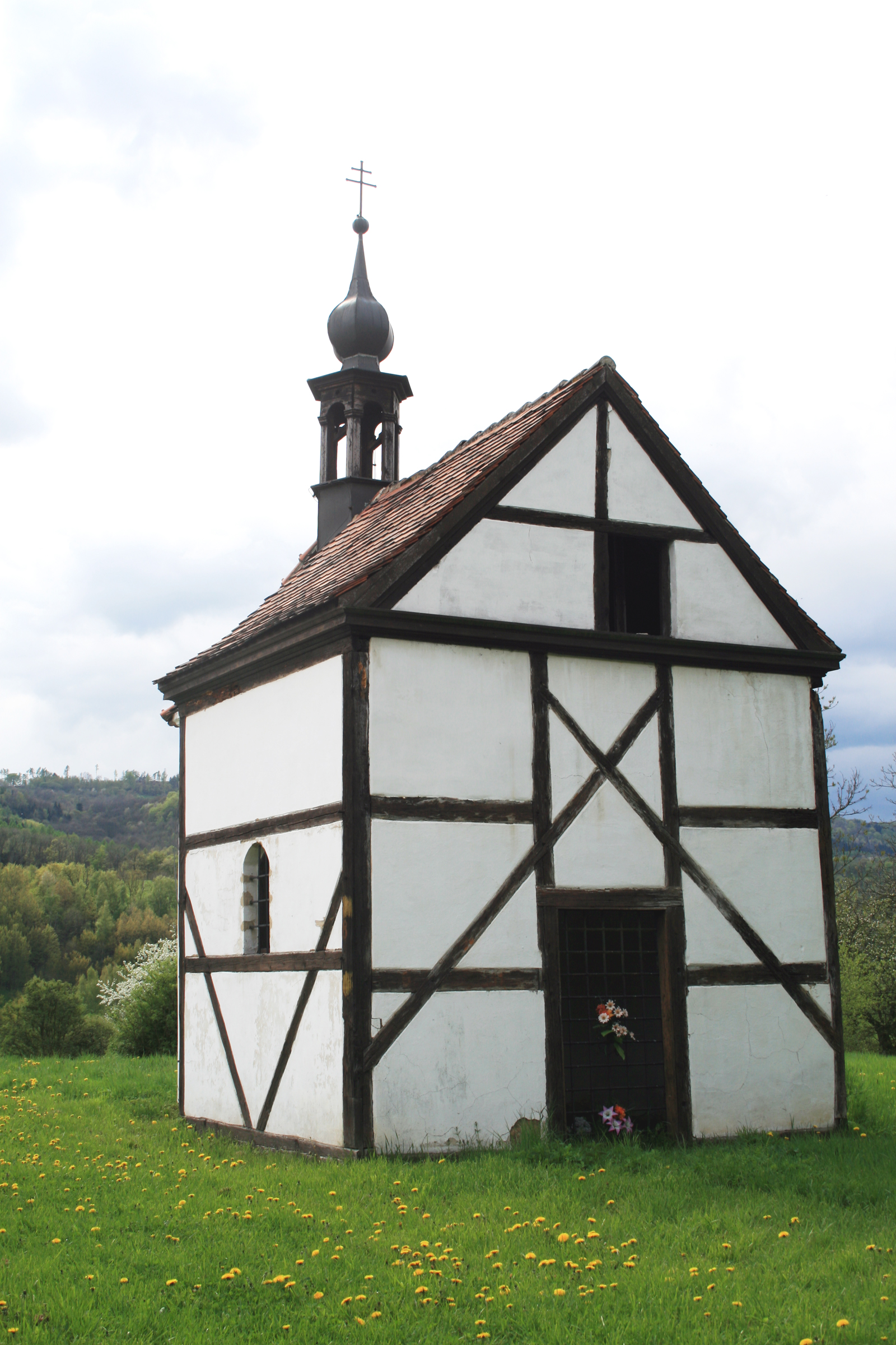 Holy Trinity chapel from 18th century in Zubrnice (Ústí nad Labem District), besides road to Úštěk. Originally from Žichlice (Teplice District), transferred to Zubrnice open-air museum in 1990.